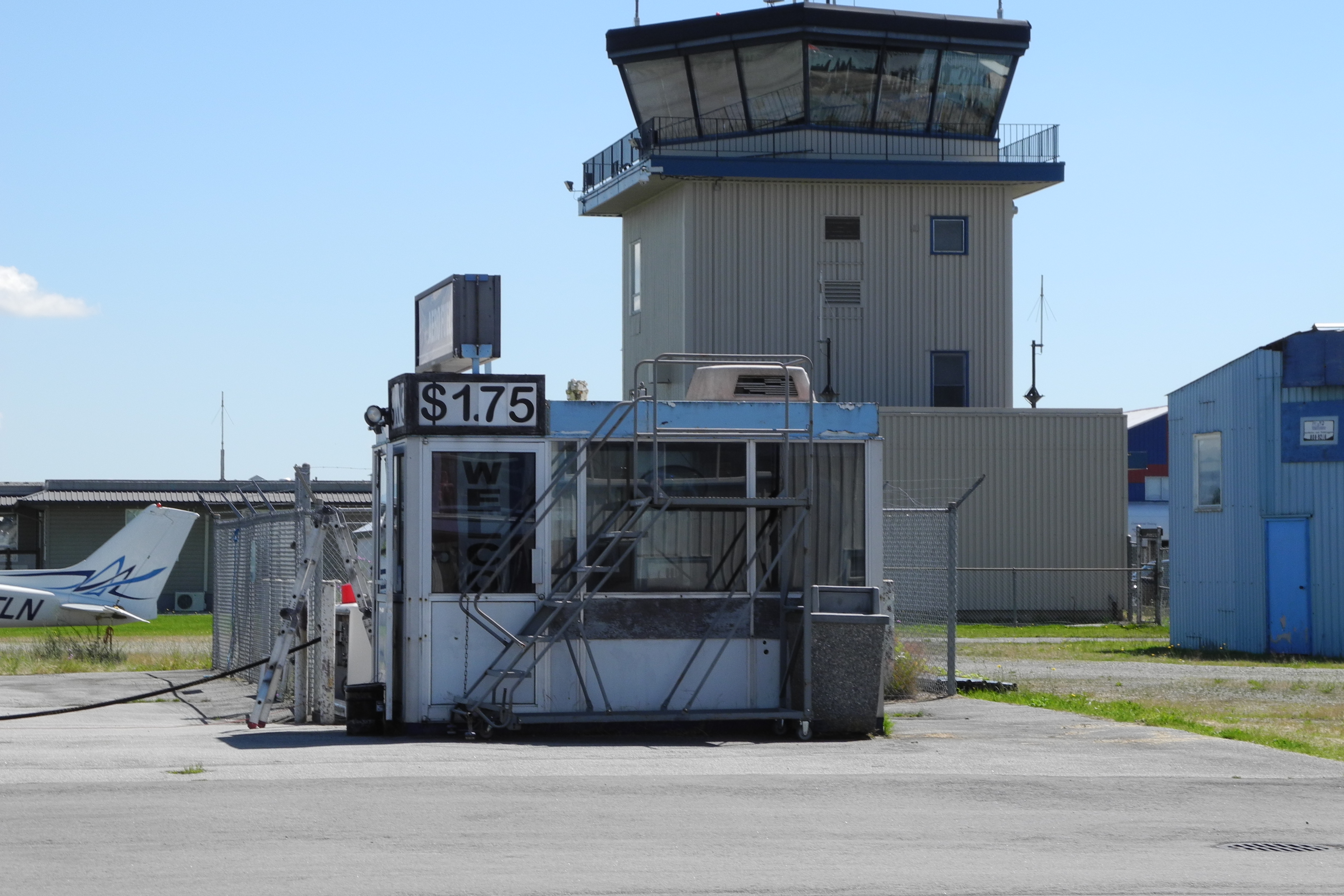 Pitt Meadows Tower